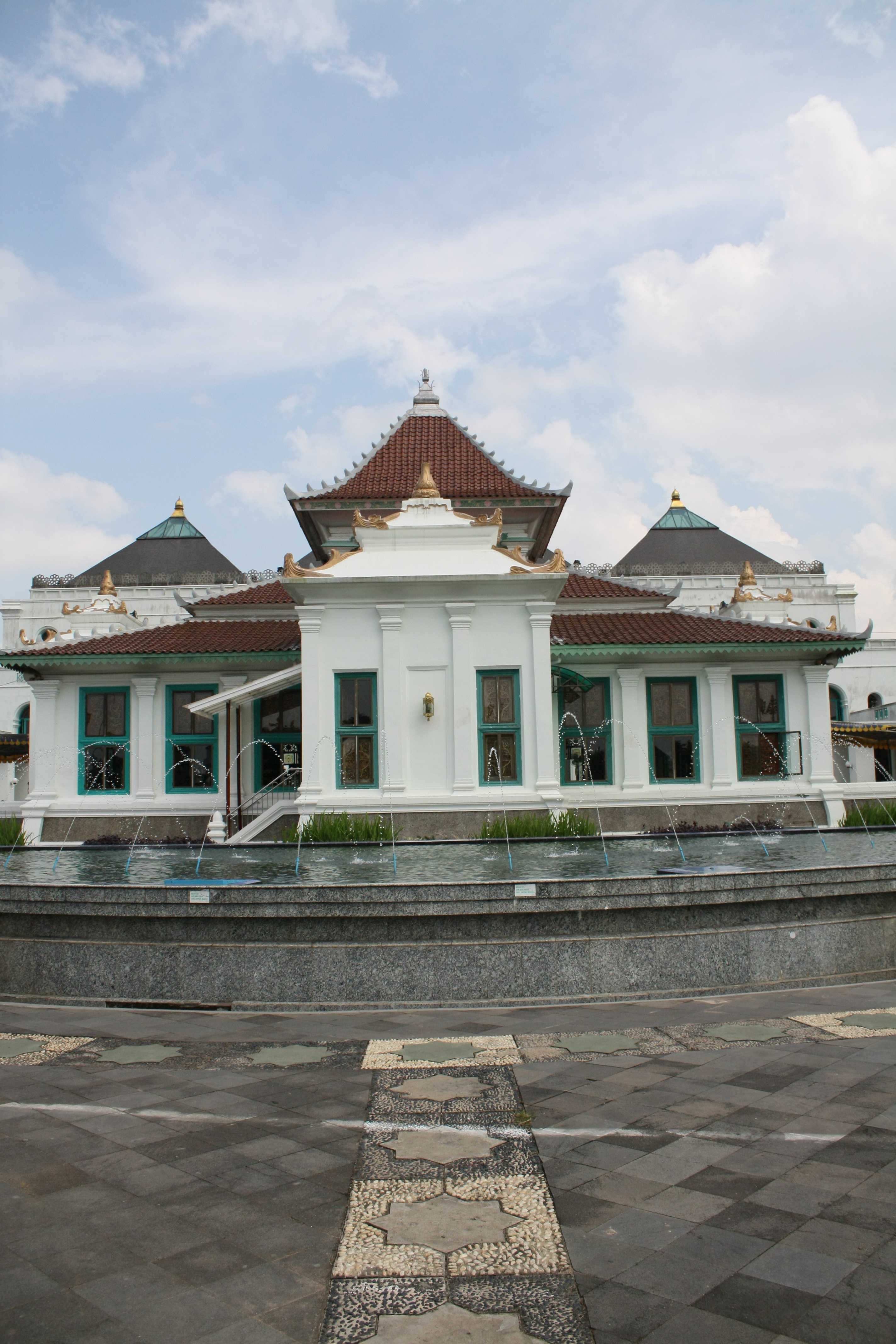 Palembang Grand Mosque